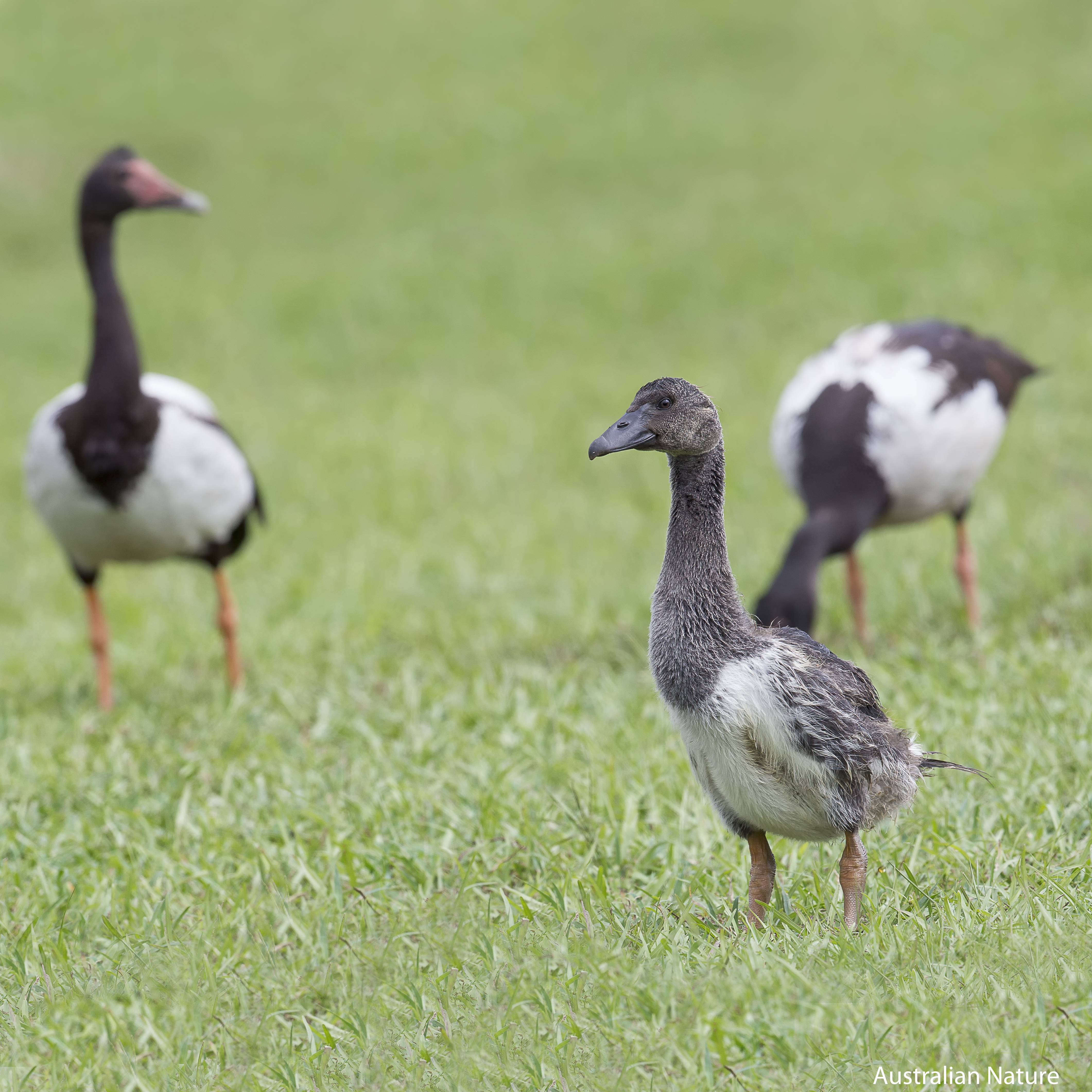 Mapie Goose youngster stands proud with his parents in the background